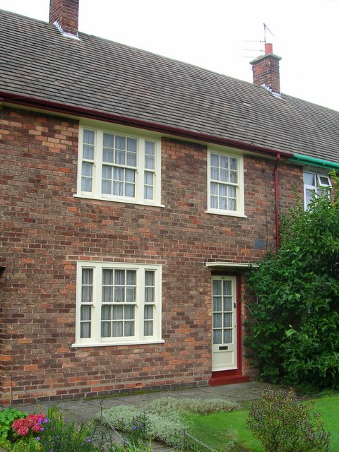 20 Forthlin Road, Allerton, Liverpool Paul McCartney's childhood home, now in the care of the National Trust.